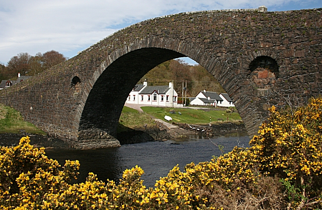 Clachan Bridge The brownish patches on the stonework of the bridge are the dormant plants of Fairy Foxglove (Erinus alpinus) which will soon be decorating the bridge with their purple flowers again. Erinus alpinus is rare in the wild in Scotland, but naturalises and spreads readily when introduced as it has been here.